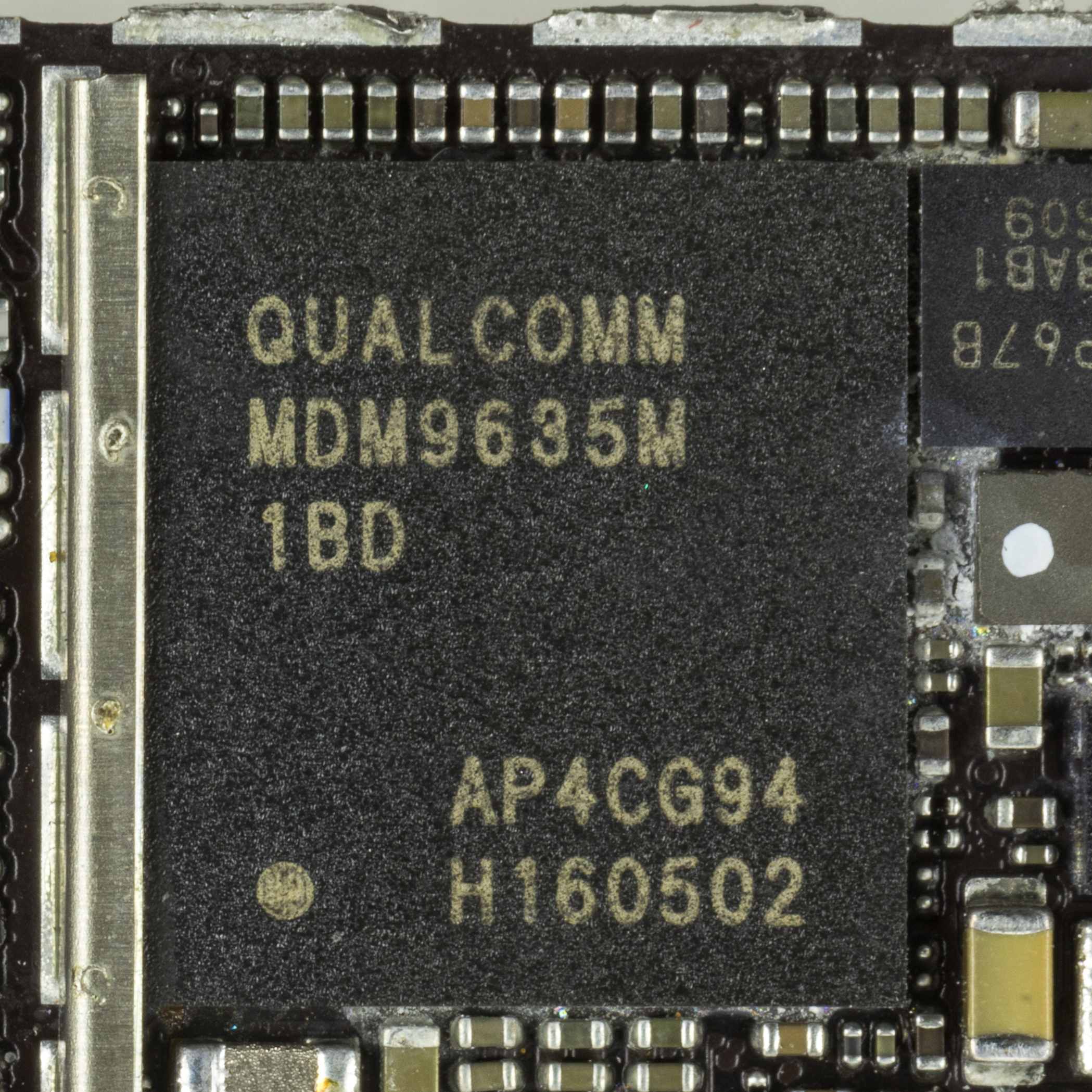 IPhone 6s - motherboard - Qualcomm MDM9635M - LTE Cat. 6 Modem